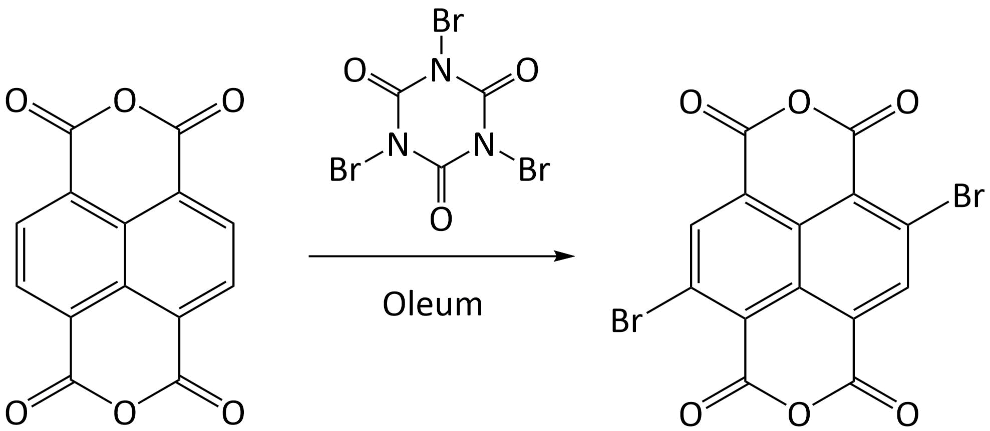 Bromination reaction of naphtalene dianhydride